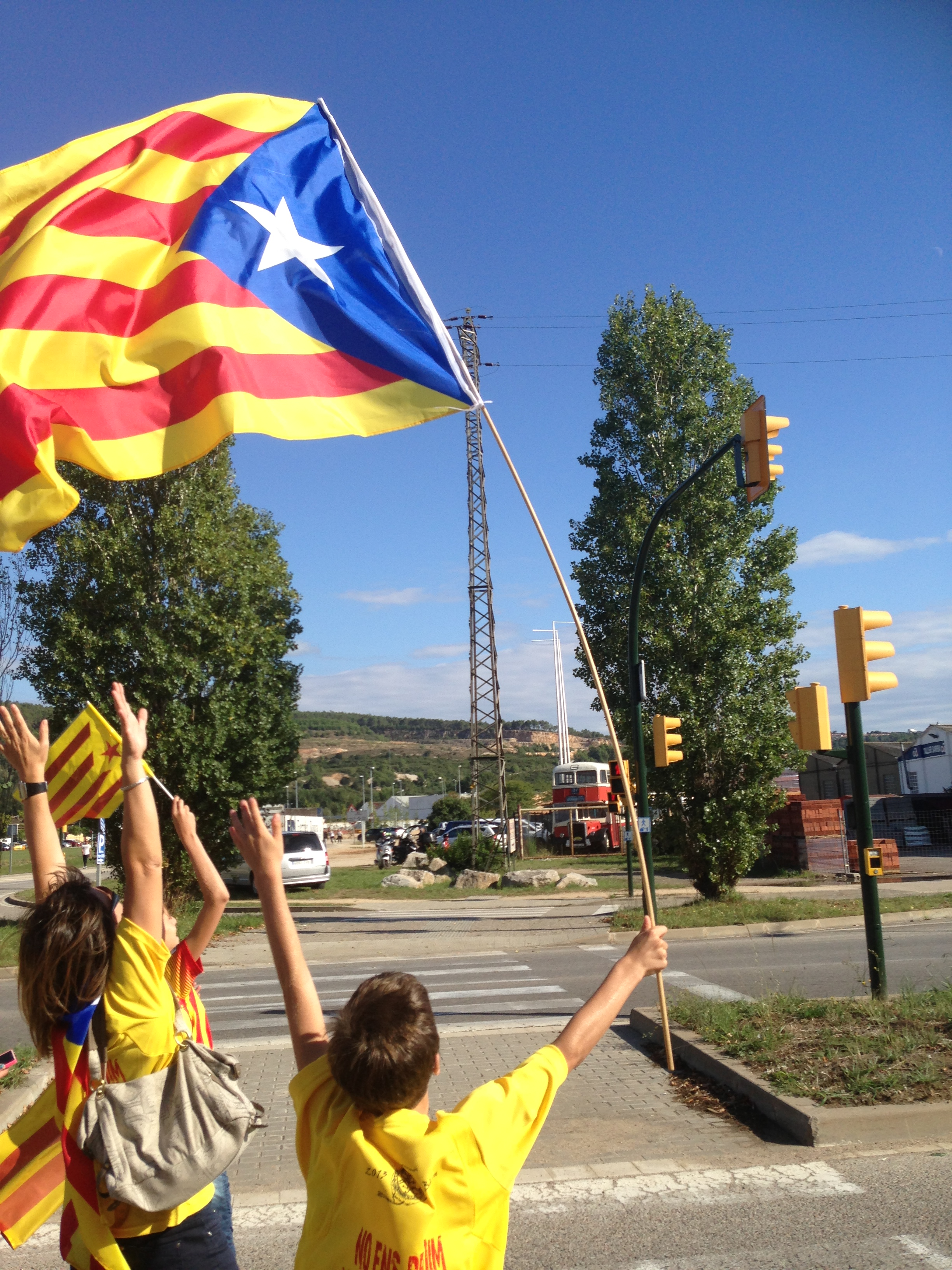 Catalan Way, tram 609